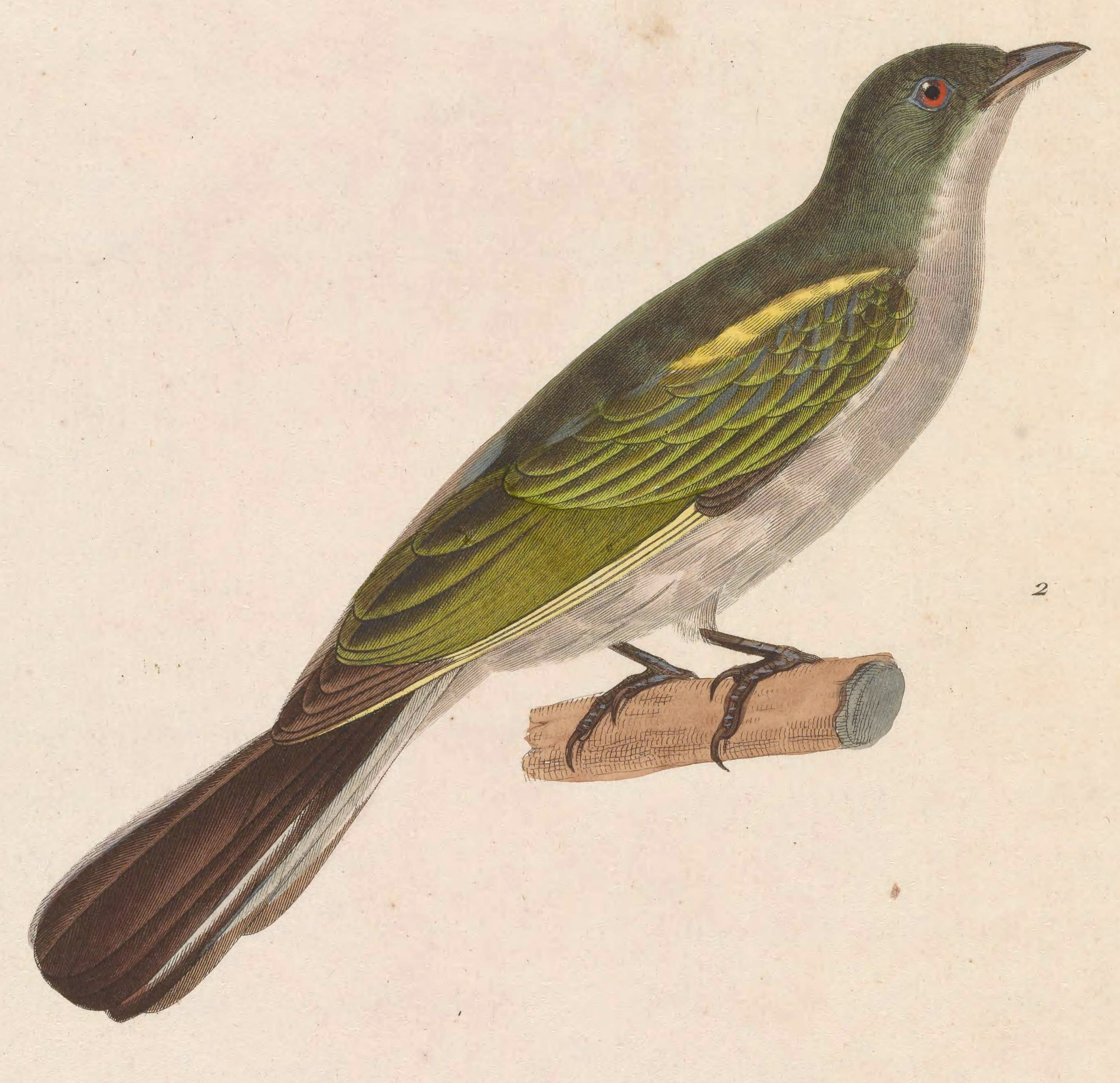 « Indicator archipelagicus » = Indicator archipelagicus (Malaysian Honeyguide)